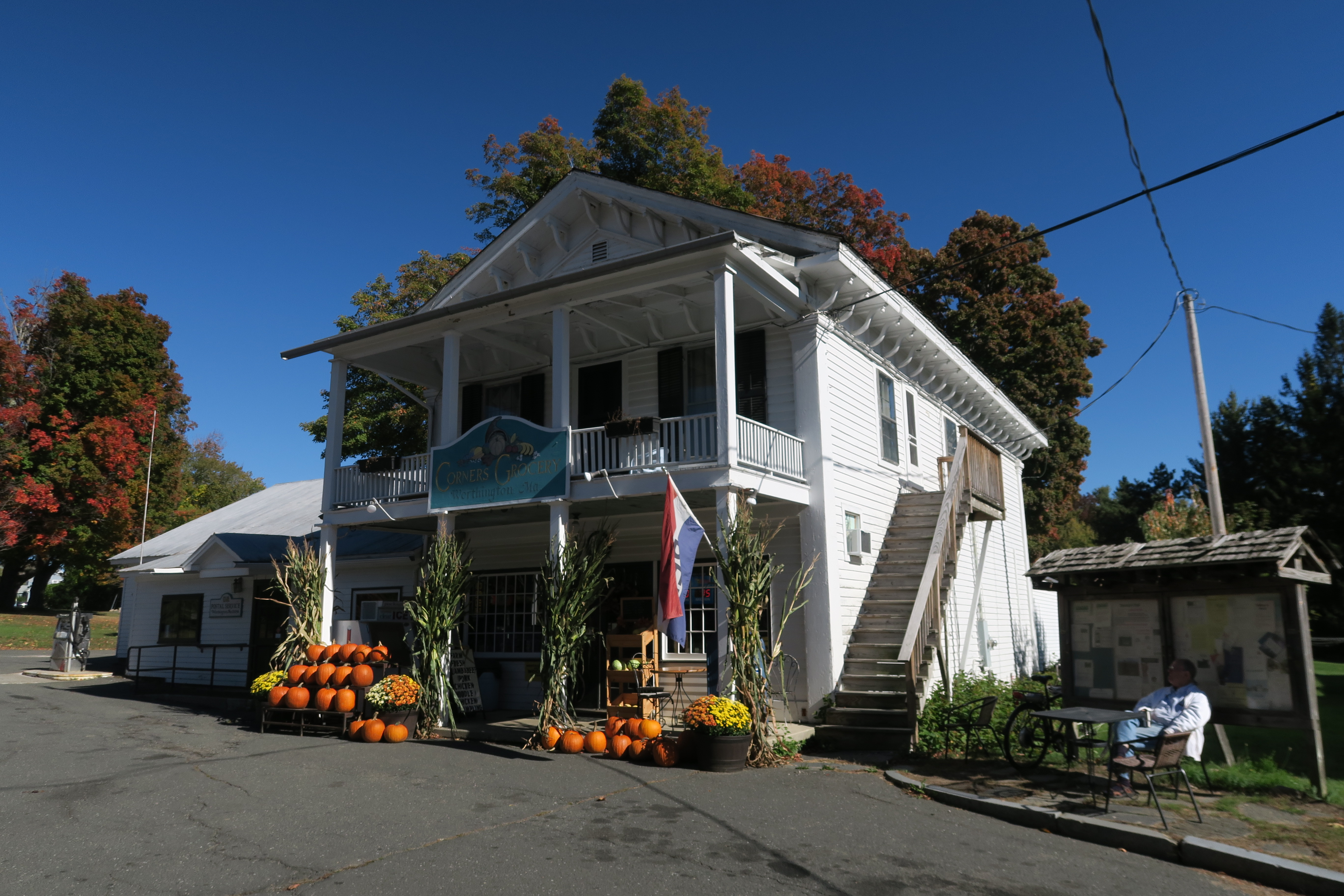 Corners Grocery, Worthington Massachusetts